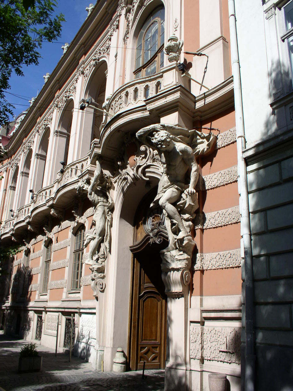 Nobles Casino. Lviv, Ukraine.